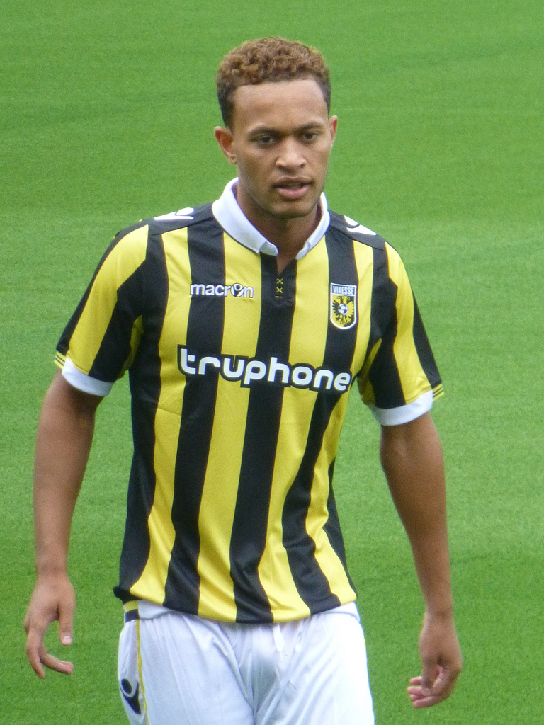 Lewis Baker at the Papendal training grounds of Vitesse on 28 June 2015